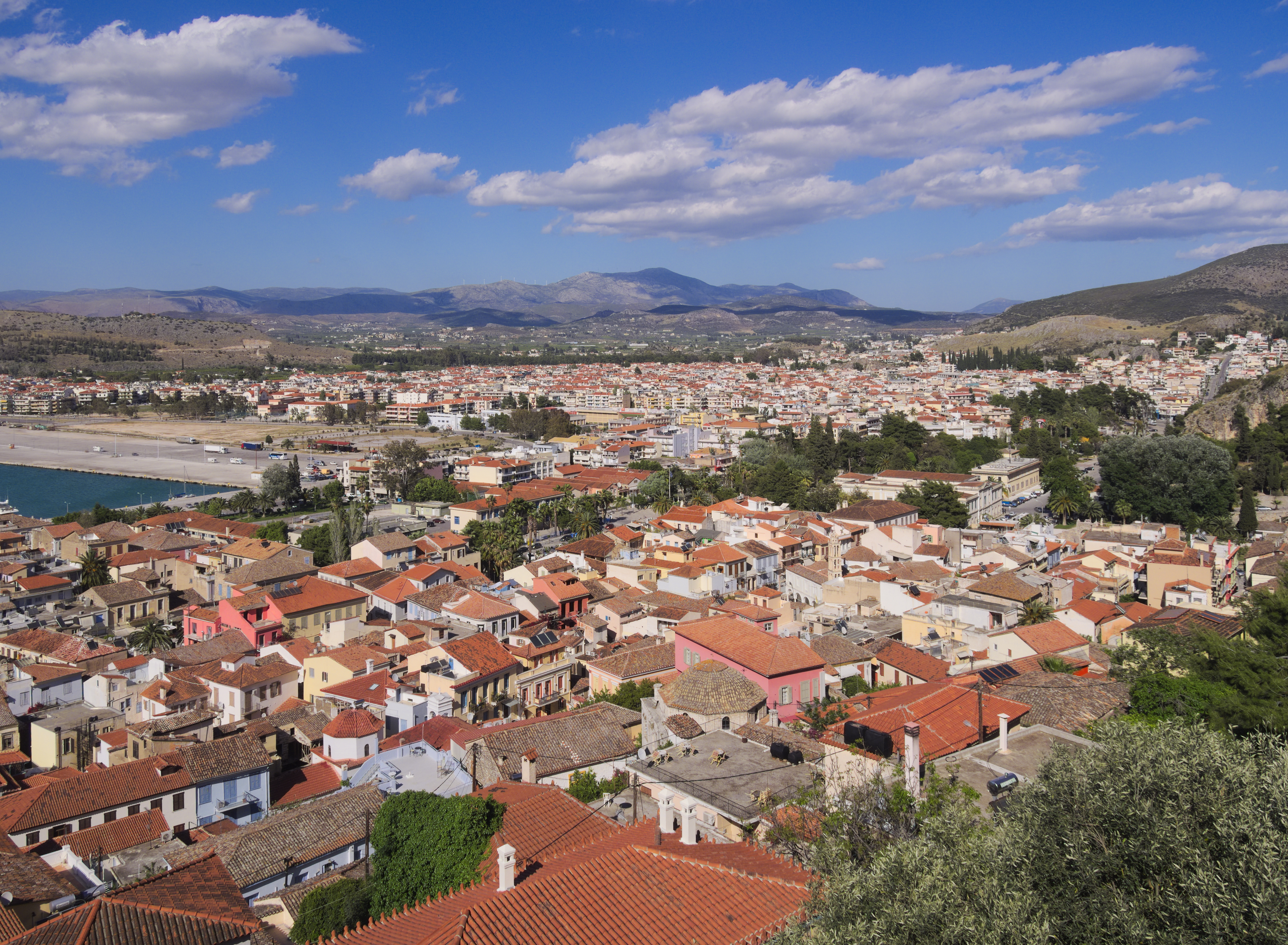 View of Nafplion from Acronafplia.